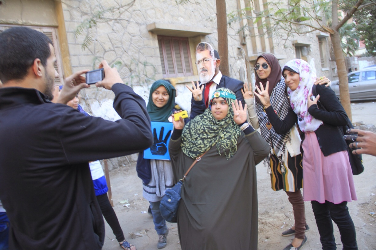 Original description: "Protesters pose for a photo in Cairo, Dec. 6, 2013. (Hamada Elrasam for VOA)"